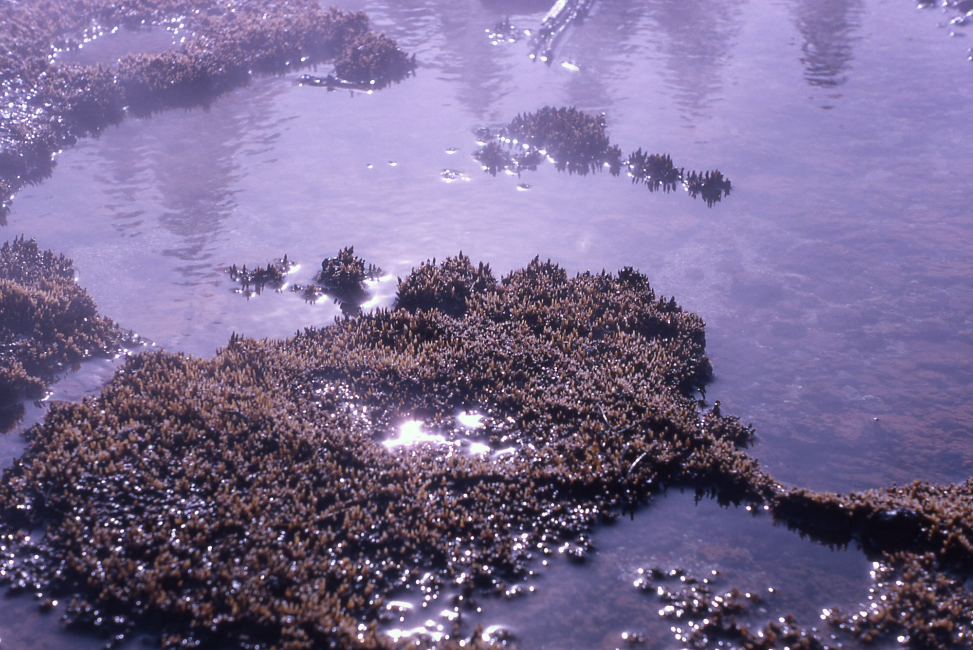 Echinus Geyser Pool, Norris Geyser Basin, Yellowstone National Park, Wyoming